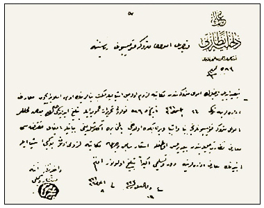 Translation: "It is necessary to appropriate the schools of the towns and villages that have been emptied of Armenians to Muslim immigrants to be settled there. However, the present value of the buildings, the amount and value of its educational materials needs to be registered and sent to the department of general recordkeeping."